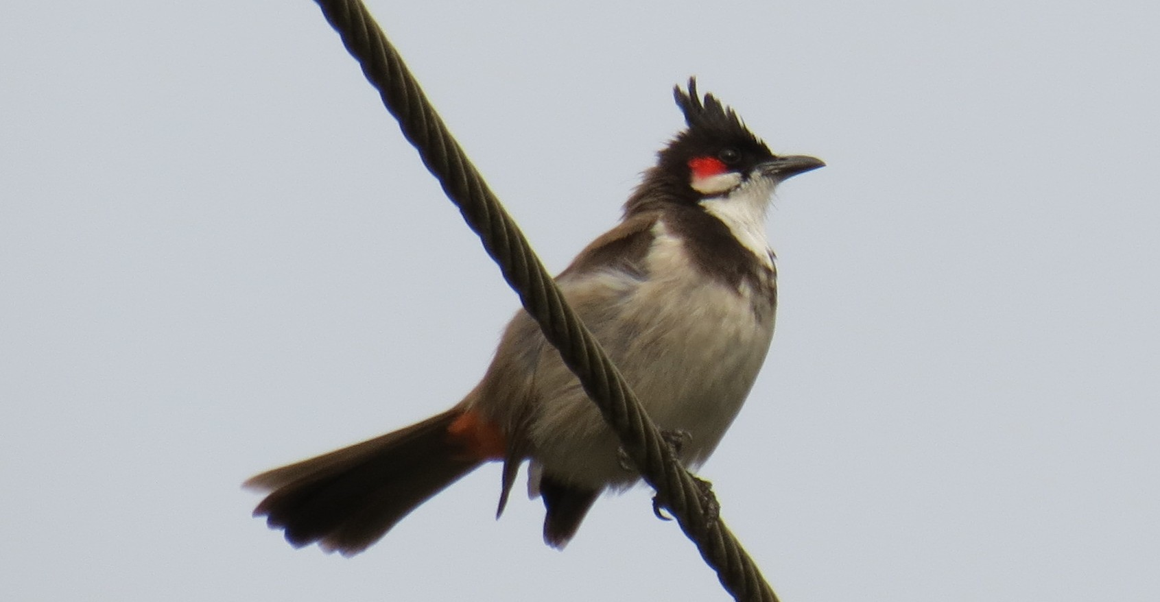 Bulbul From Attappadi Plateau, India